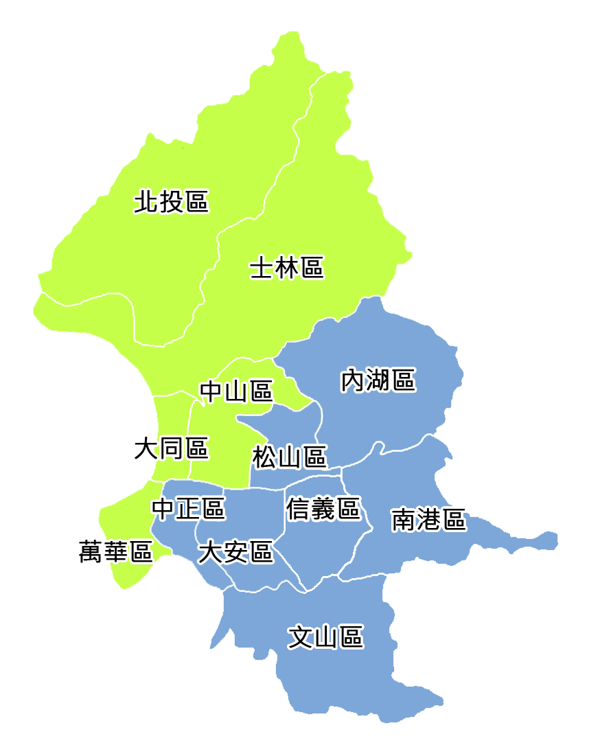 Graphical Depiction of the Election Results of the 1998 Taipei Municipality Mayoral Election.